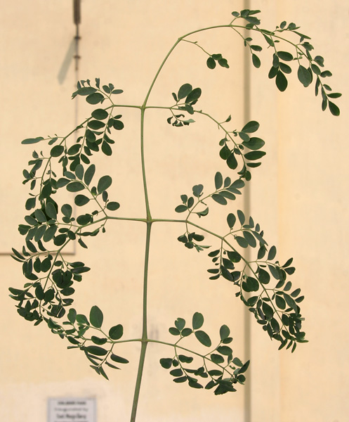 Sonjna Moringa oleifera in Kolkata, West Bengal, India.